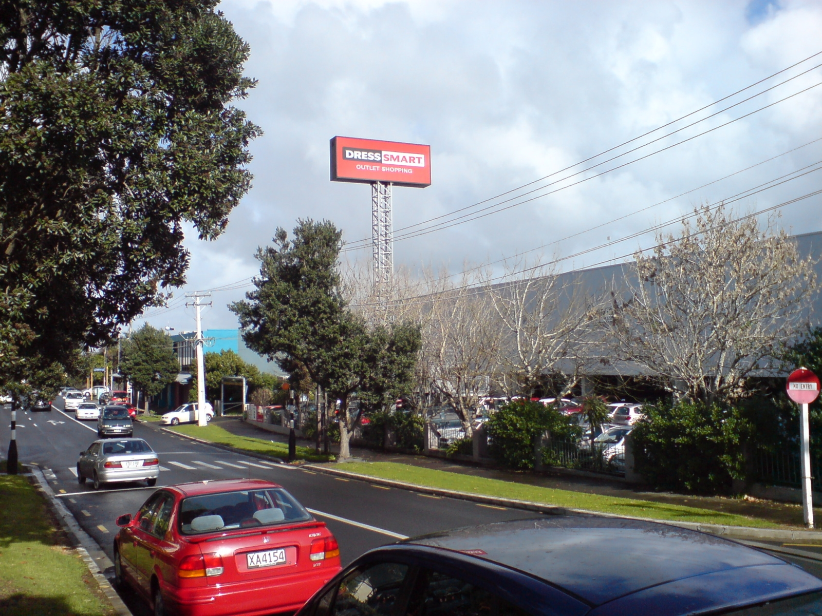 The Dressmart outlet store in Onehunga, Auckland City, New Zealand.